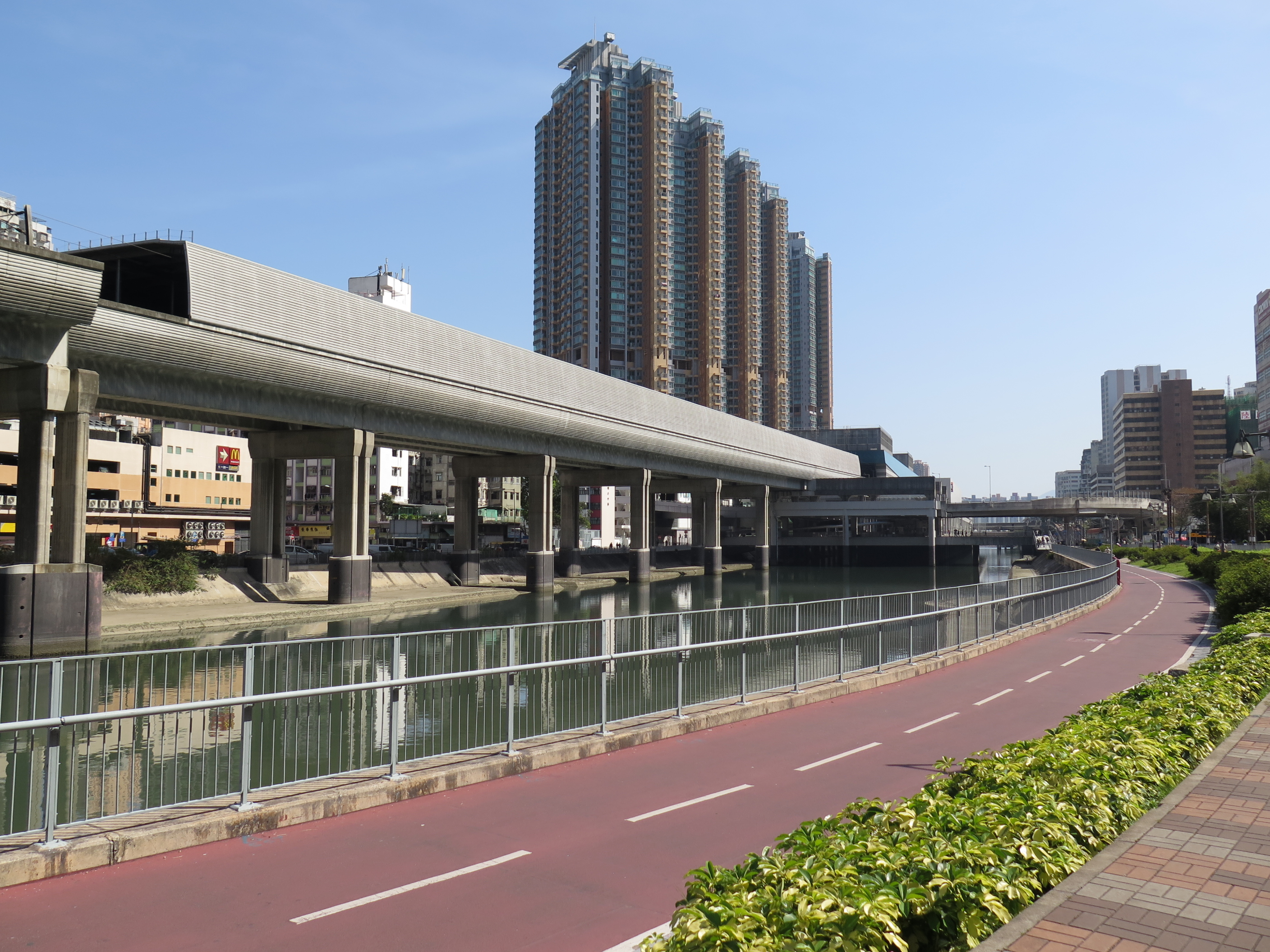 Tuen Mun River Near West Rail Track